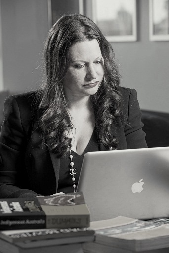 A photograph of Larissa Behrendt working 2012.